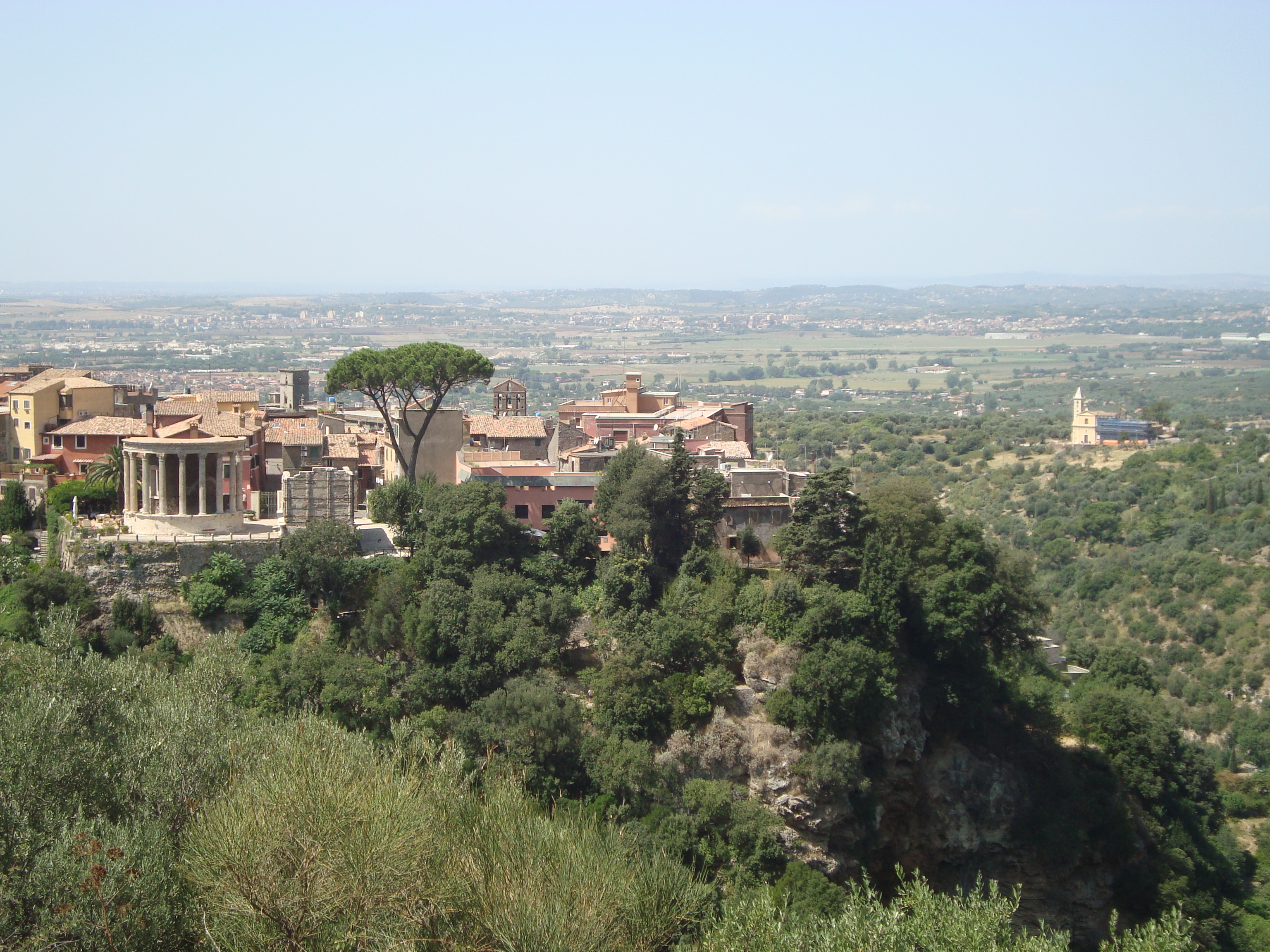 General view of the temple of Vesta (left) and the temple of Sibyl (right) in Tivoli. On the right could be seen the Church San Quintilioli.